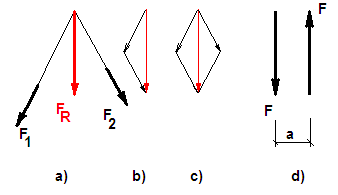 resultant force